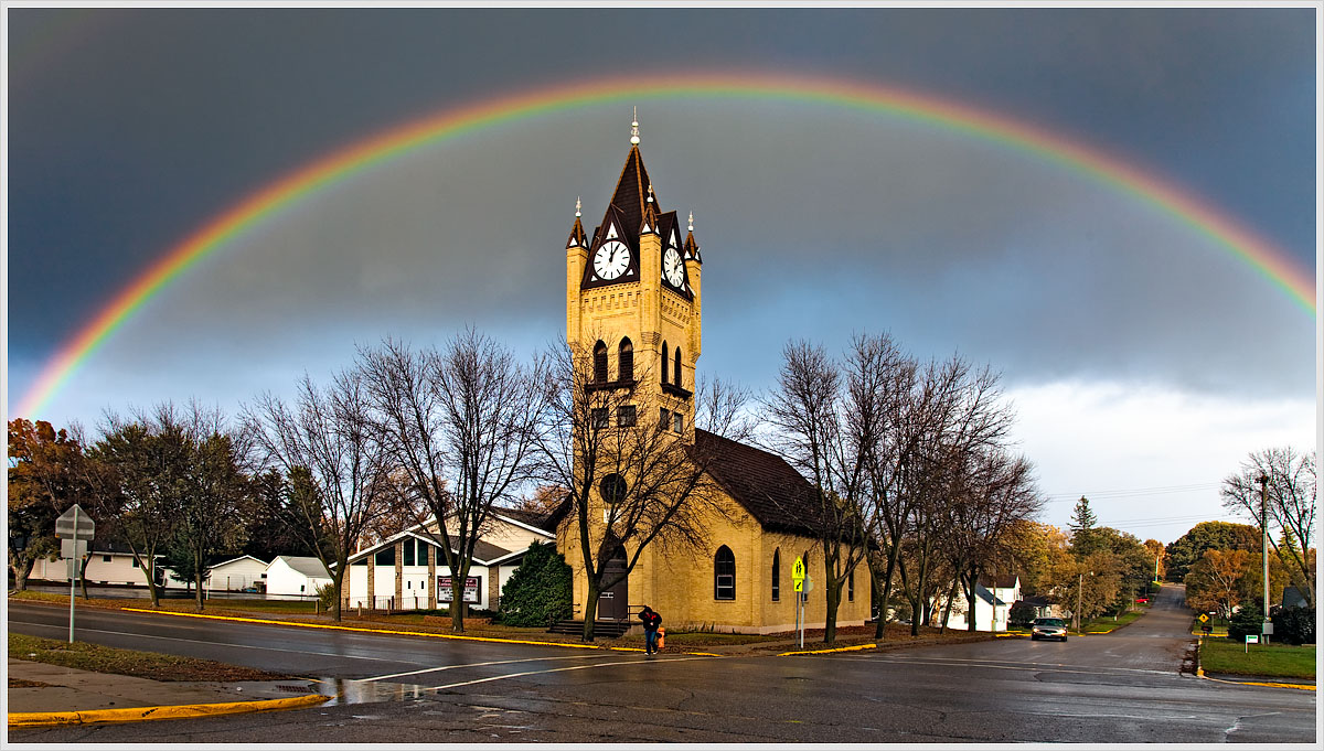 Sometimes it is just being in the right spot at the right time. On my way home from work yesterday, I chased an intense rainbow into Pelican Rapids, Minnesota. It was then kind enough to perfectly frame Faith Lutheran Church on the town's main street. This is close to being straight out of the camera with just a little perspective correction and cropping. The clock must be broken because this photograph was taken at about 5:30 PM yesterday.